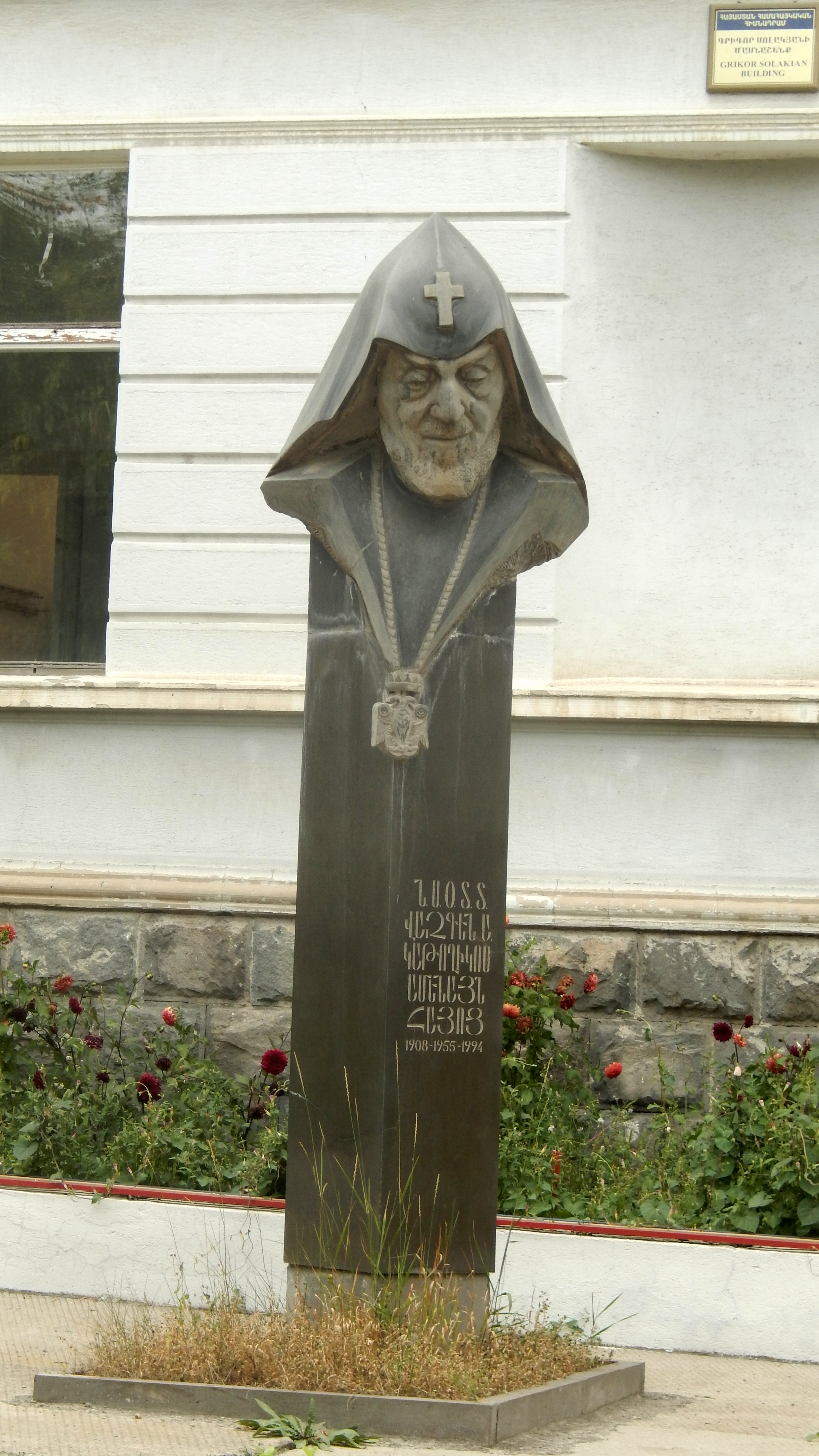 Vazgen First Bust, Vanadzor